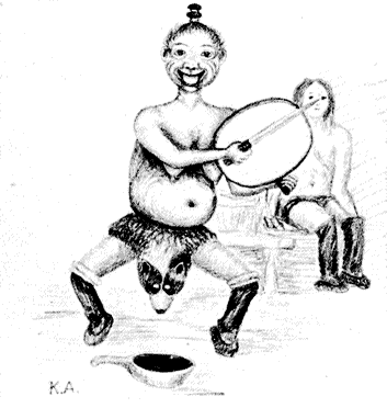 Illustration by Greenlandic artist Kârale Andreassen used in Kujavarsiks rejse til månen by Ove Bak (1977)